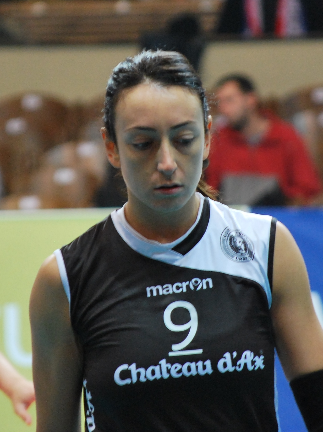 Chiara Di Julio, italian volleyball player